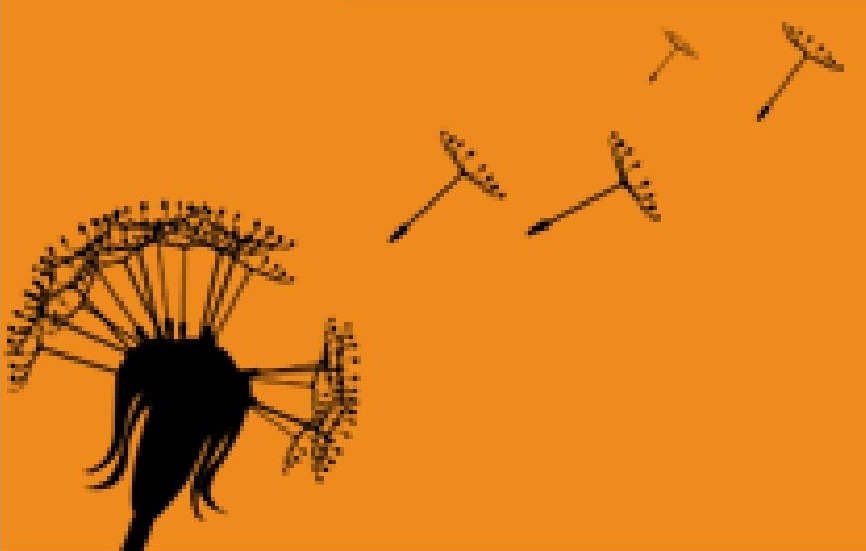 Illustrations in The Pirate Party Declaration of Principles 4.0